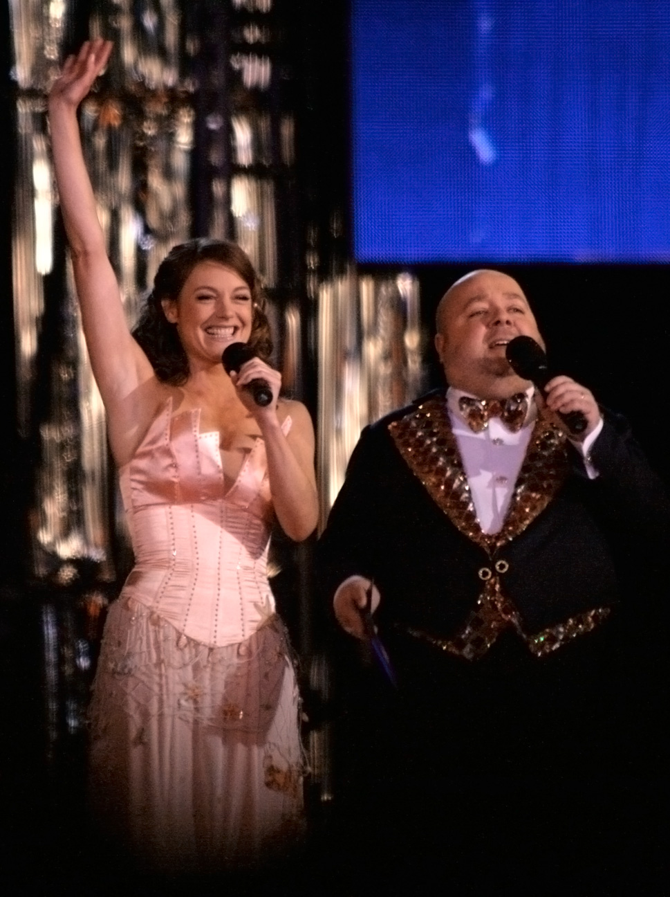 Elke Winkens and Dirk Bach at the Life Ball 2009, Rathaus, Vienna.